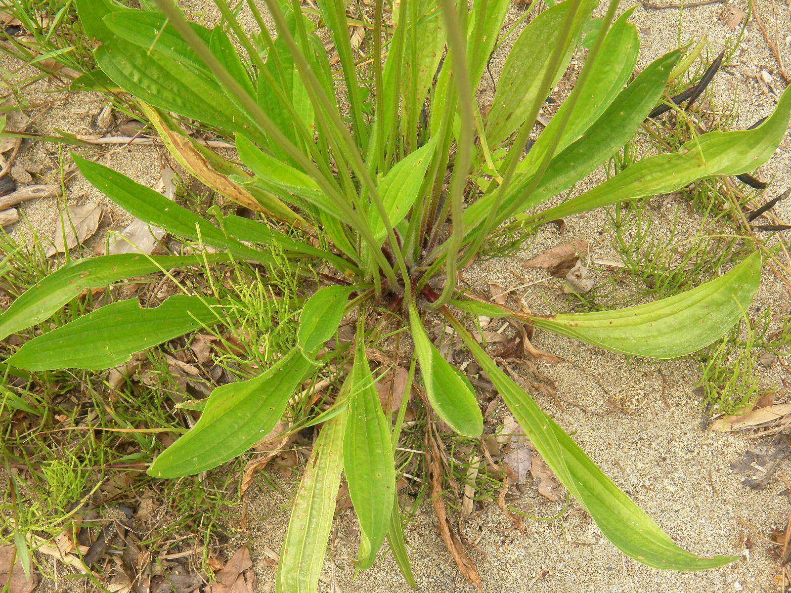 Ribwort Plantain (Plantago lanceolata). Dry riverbed of Hirose River. Aoba ward, Sendai, Miyagi prefecture, Japan.